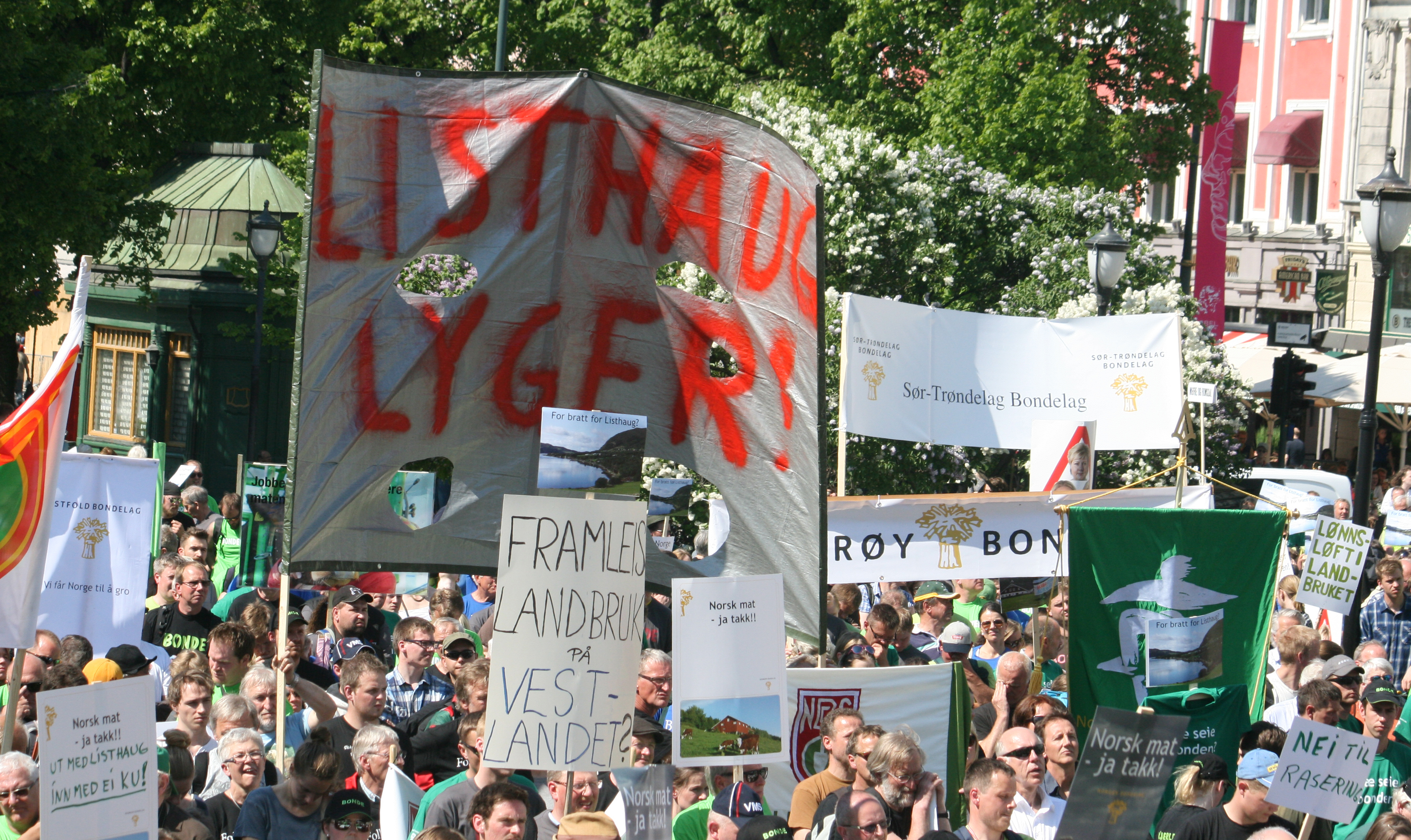 Farmers protesting againts the agricultural politics of Solberg's Cabinet; Oslo, Norway May 20, 2014